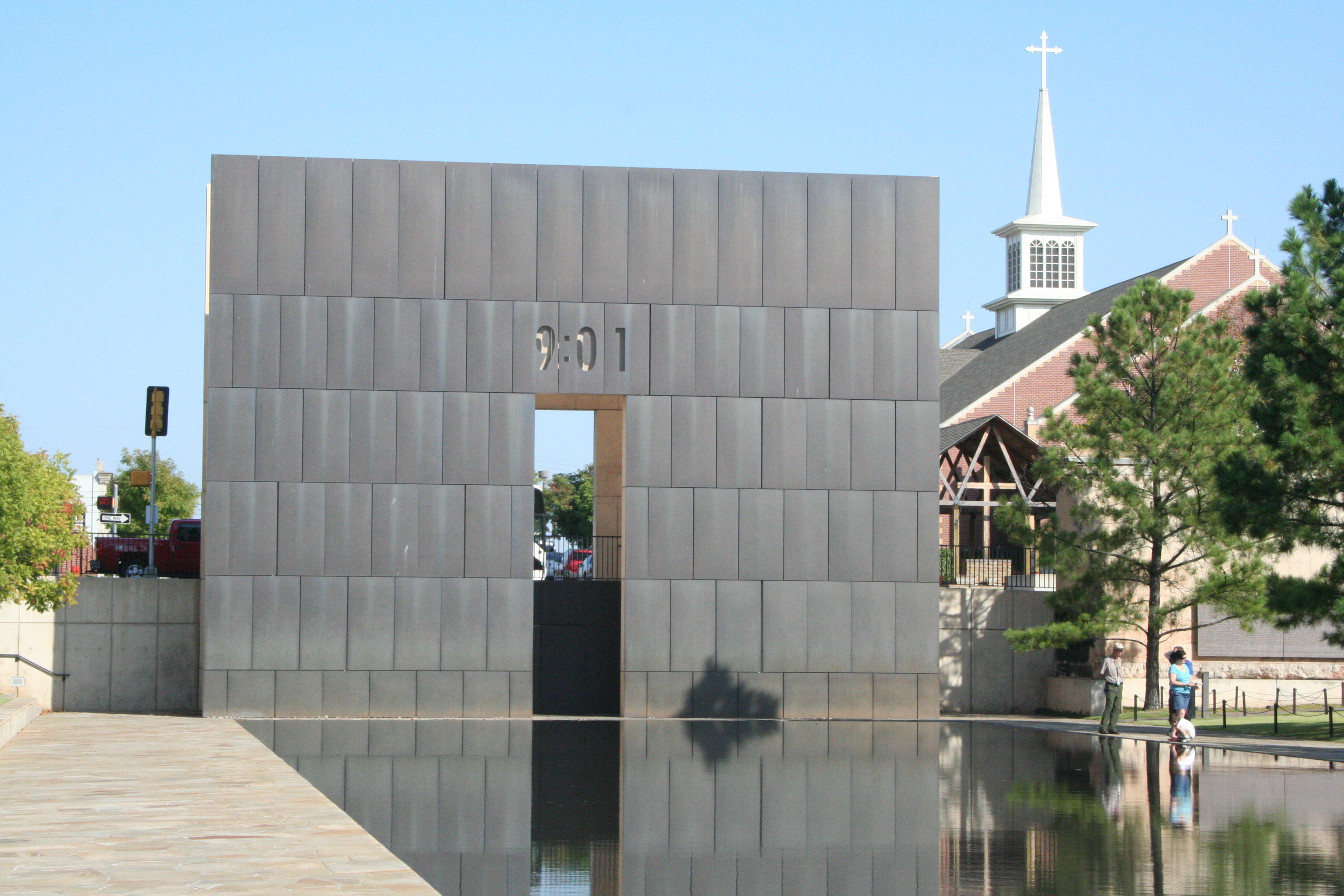 Views in and around the Oklahoma City National Memorial. 9:01 gate